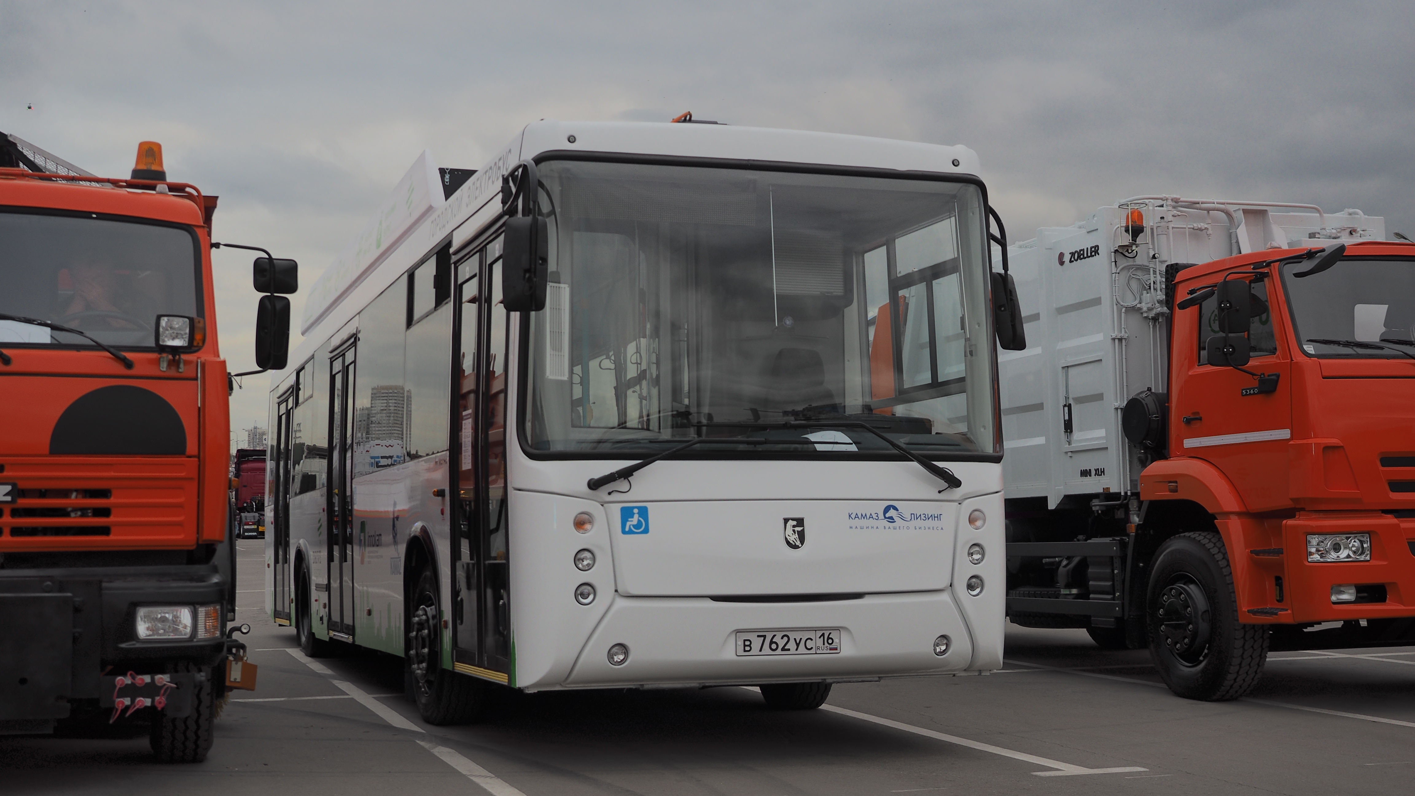 NefAZ 6282 electric bus at Comtrans 2015 exhibition im Moscow.